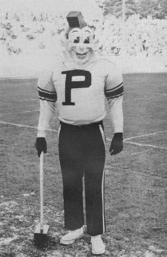 Photograph of Purdue mascot Purdue Pete